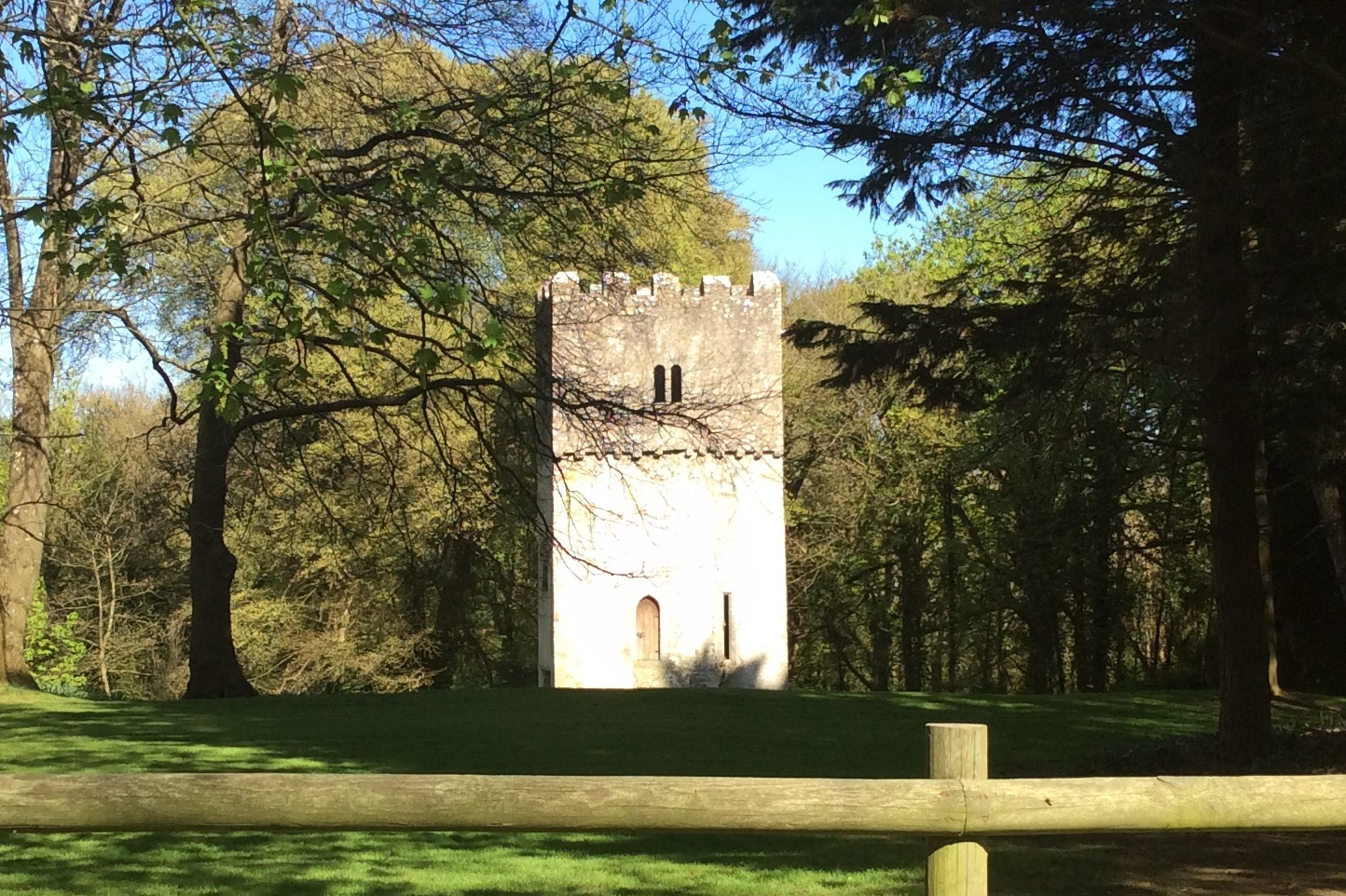 The Watchtower in the grounds of Fonmon Castle, near Rhoose in South Wales. Grade II* listed building.